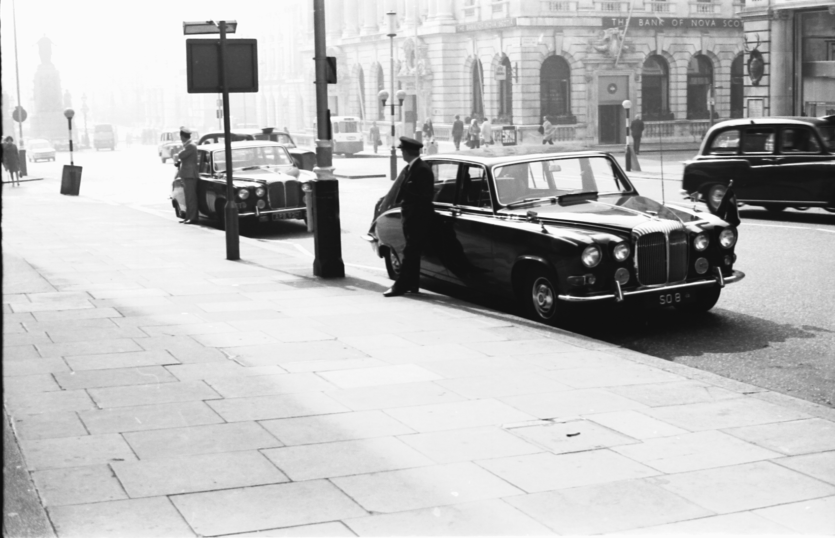 Daimler DS420 limousines in Westminster, near Waterloo Place